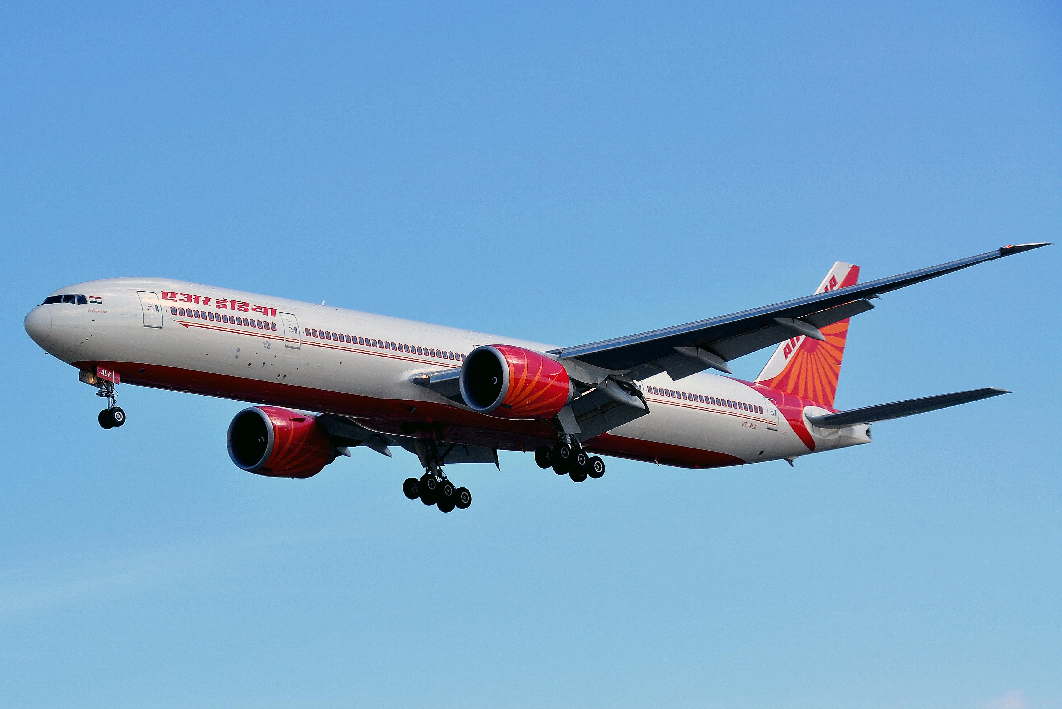 Boeing 777-337ER - Air India (VT-ALK)